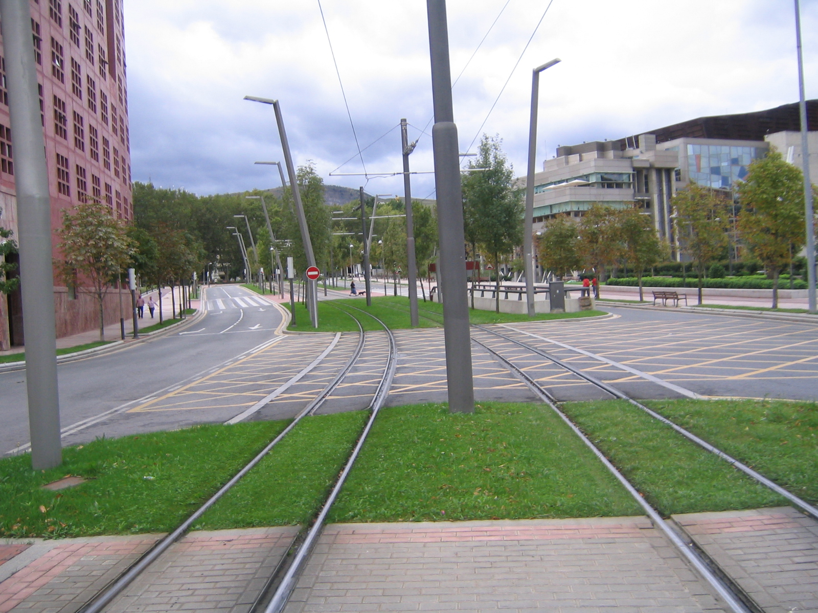 EuskoTran tracks in the median of Avenida de Abandoibarra (Abandoibarra Hiribidea), near the intersection of Calle de Lehendakari Leizaola (Lehendakari Leizaola Kalea). Bilbao